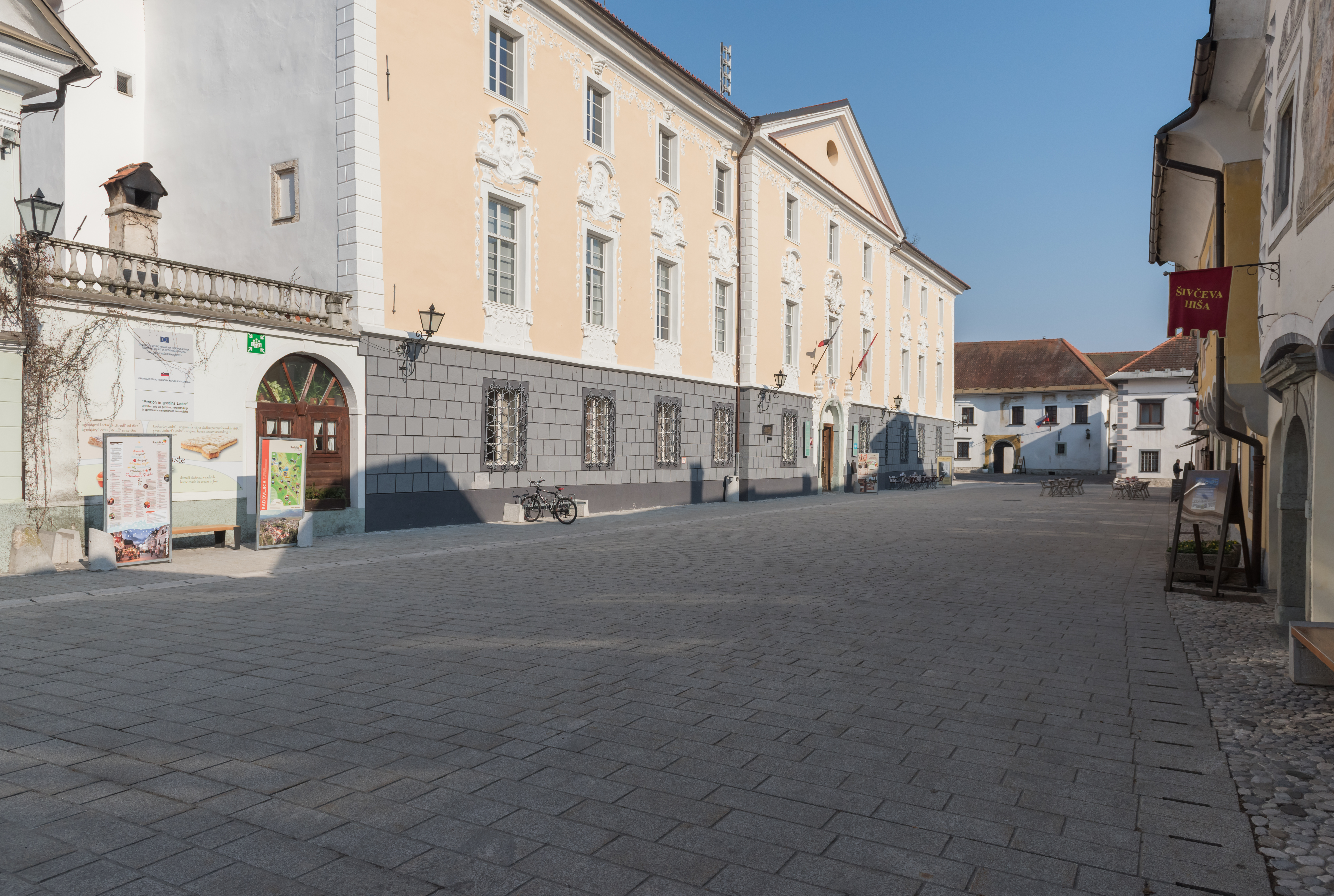 Castle Thurn and parish manson on Linhart square #1 in Radovljica, municipality Radovljica, Upper Carniola, Slovenia, EU